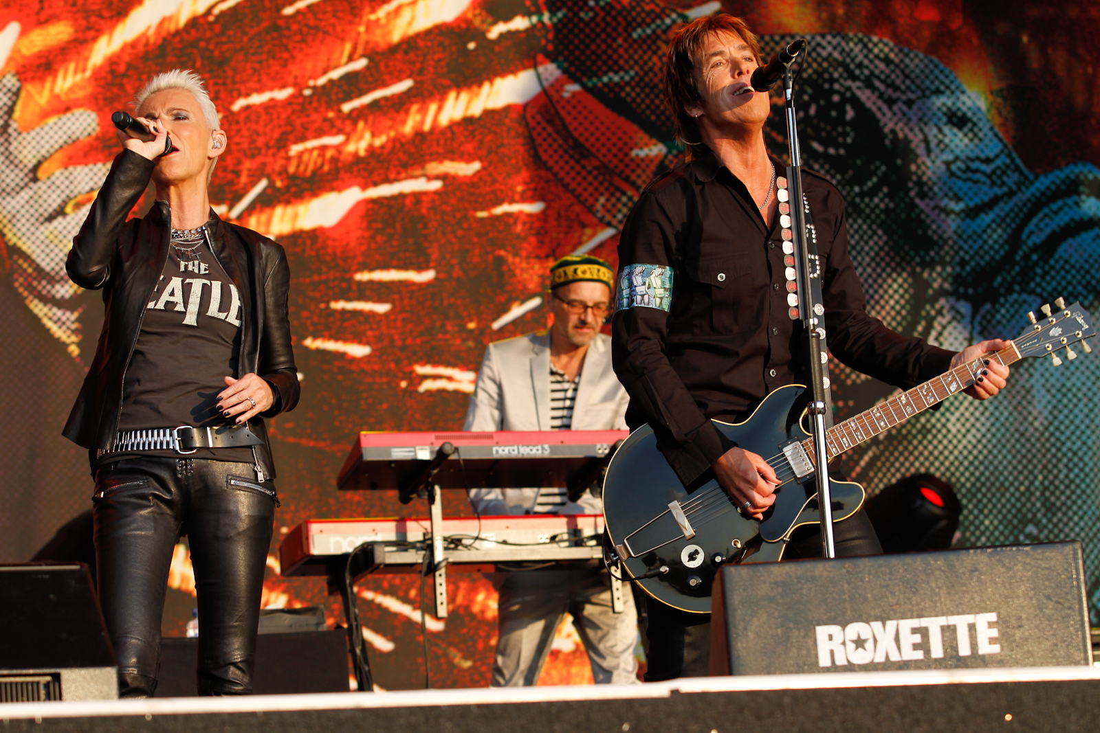 Roxette performing live on stage.